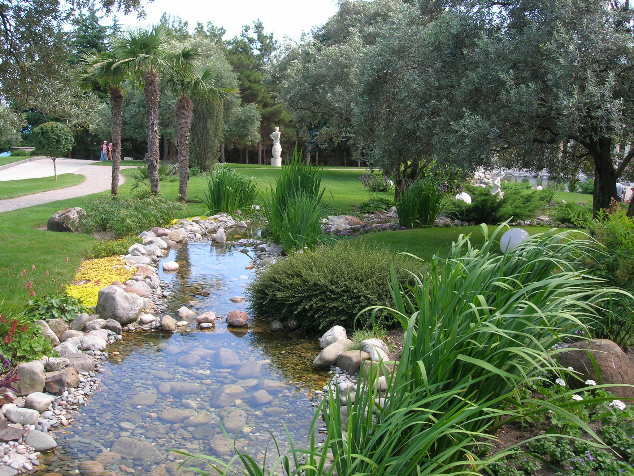 Park in Partenit (Crimea)